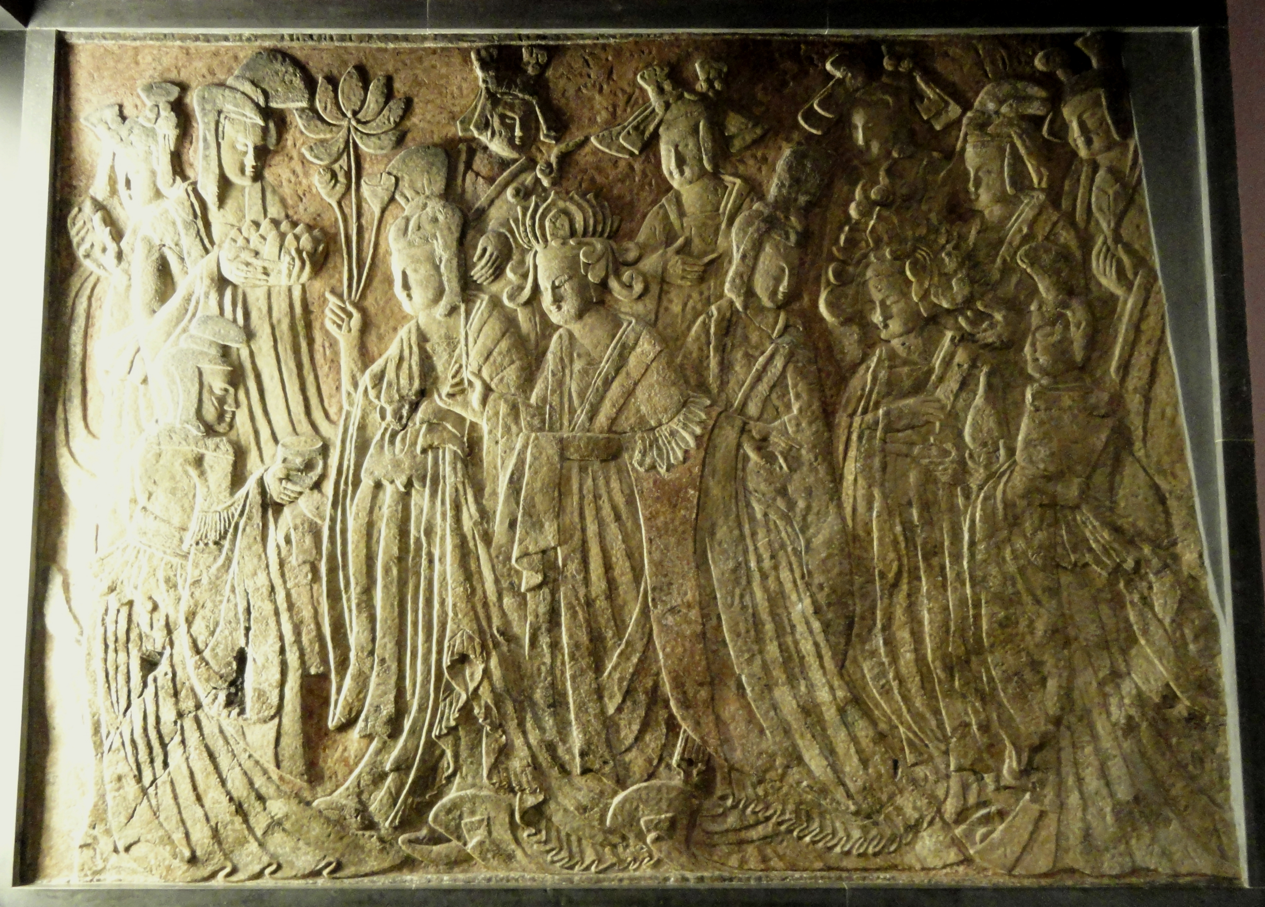 Exhibit in the Nelson-Atkins Museum of Art, Kansas City, Missouri. This artwork is old enough so that it is in the public domain, and the museum permitted photography without restriction. I took this photograph and release it into the public domain.